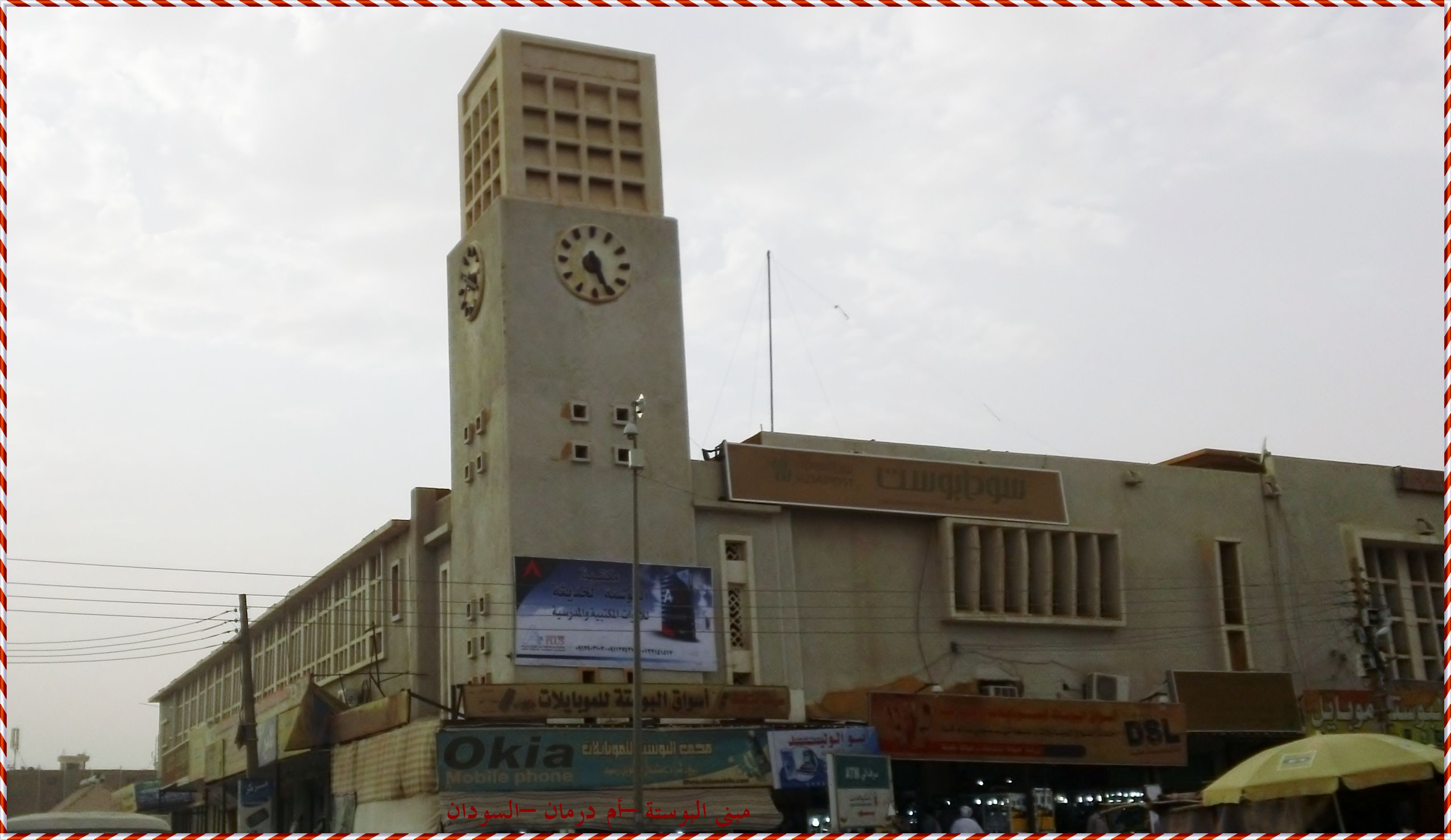 Omdurman post office – Omdurman – Sudan